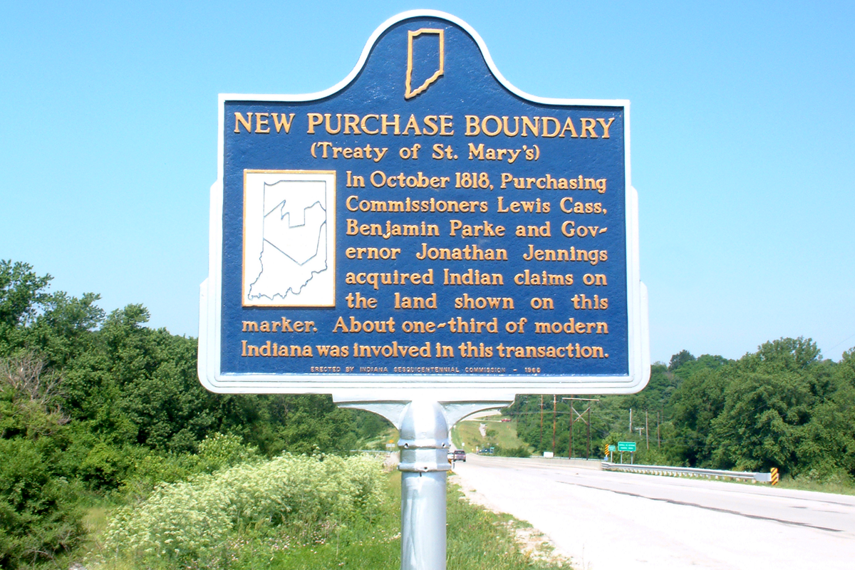 The "New Purchase Boundary" historical marker in Carroll County, Indiana, west of the town of Delphi along U.S. Route 421 (Indiana State Roads 39 and 18) . It reads: New Purchase Boundary (Treaty of St. Mary's) In October 1818, Purchasing Commissioners Lewis Cass, Benjamin Parke and Governor Jonathan Jennings acquired Indian claims on the land shown on this marker. About one-third of modern Indiana was involved in this transaction.